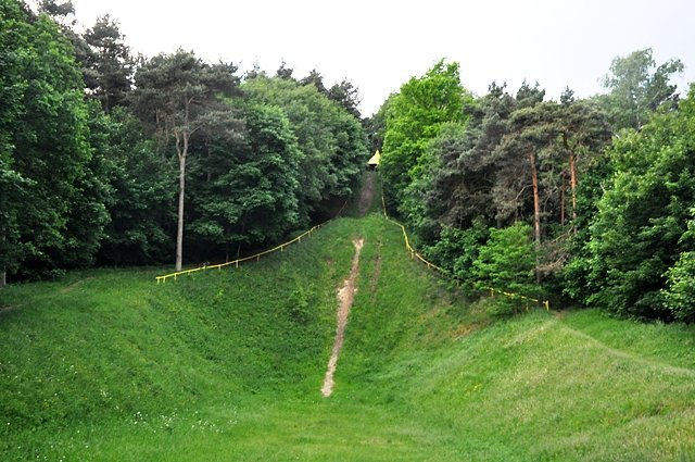 ski jump